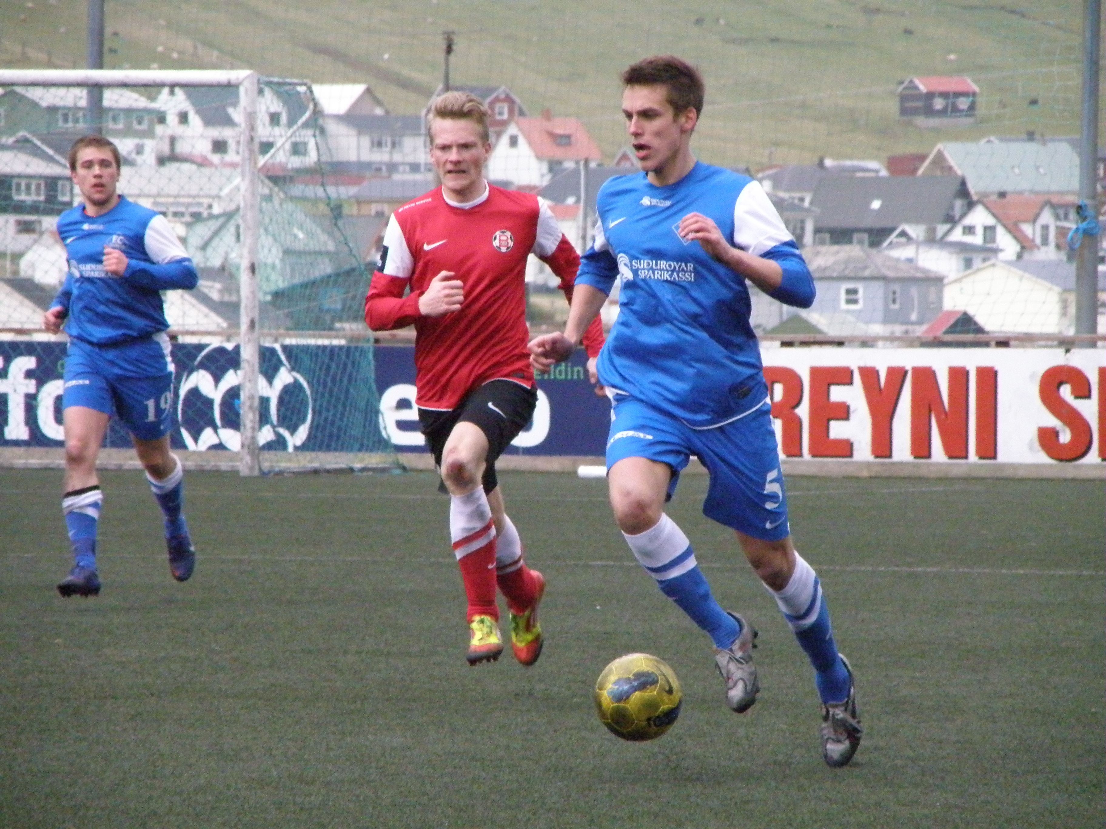 Football (soccer) match in Vágur on 21 April 2012 between FC Suðuroy and B68 Toftir in Effodeildin. The players on this photo are from left to right: Kári í Lágabø, Niklas F. Joensen and Heini Vatnsdal. FC Suðuroy play in blue and white, and B68 Toftir play in red and white. Føroyskt: Fótbóltsdystur á Eiðinum í Vági í Effodeildini millum FC Suðuroy og B68. Dysturin varð leiktur 21. apríl 2012. B68 vann dystin 1-0.